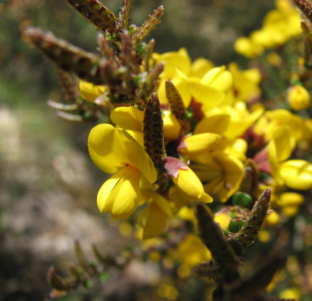 Bossiaea foliosa, Mount Buffalo National Park, Victoria, Australia